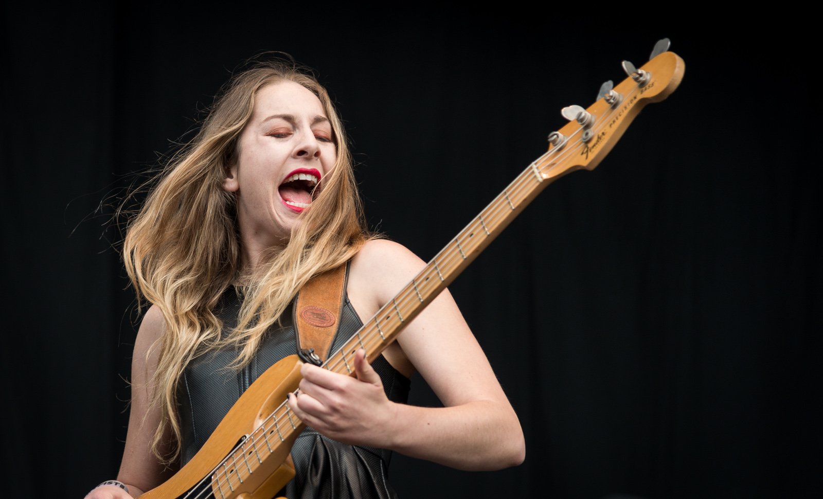 Este Haim at Øyafestivalen 2013